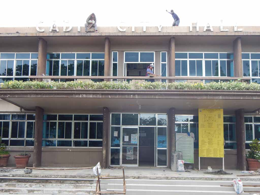 Cadiz City Hall